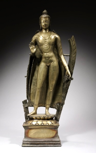 Standing Buddha, 998-1016. Cleveland Museum of Art